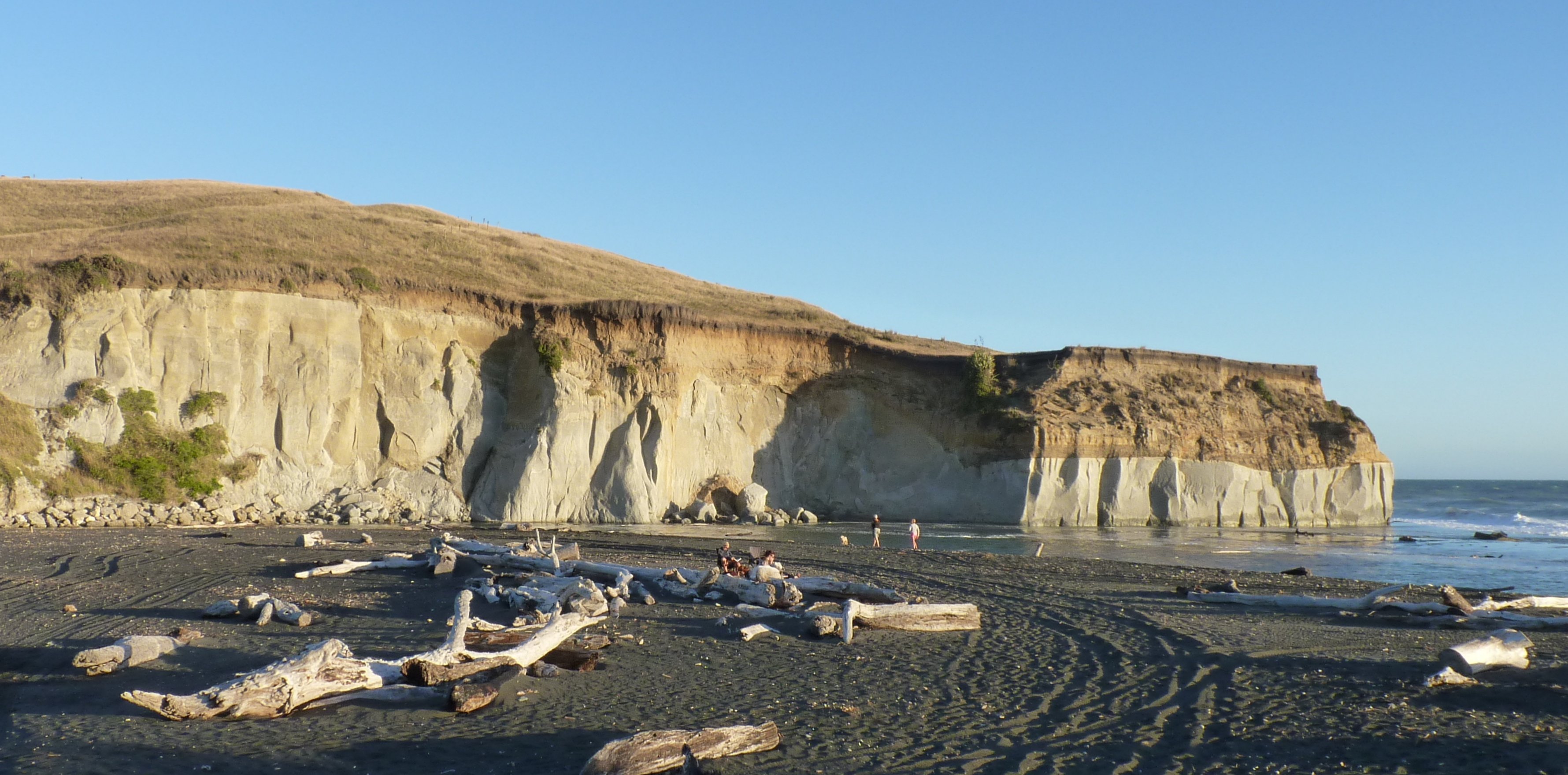 Kai Iwi Beach in Manawatu-Wanganui Region, New Zealand